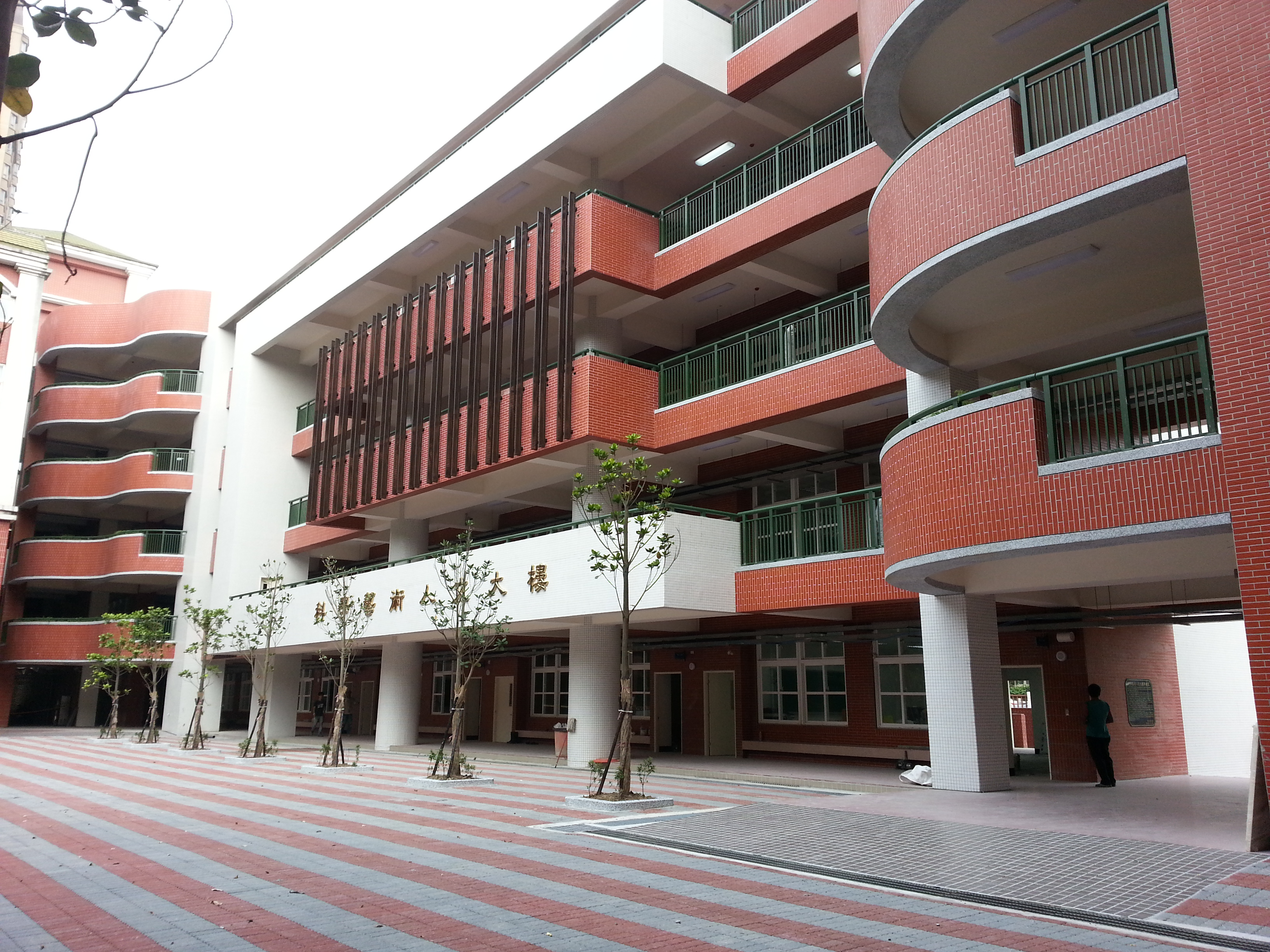 The Science & Art Building of Taoyuan County Nankan Senior High School.